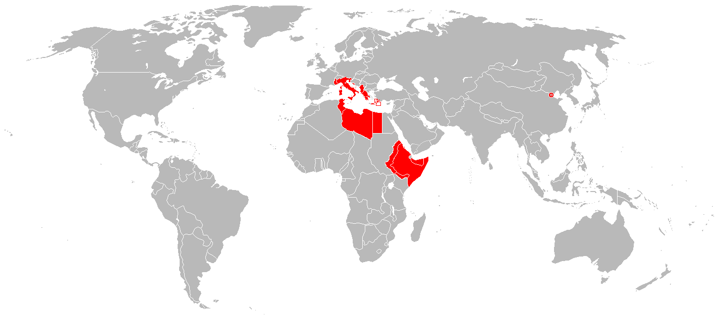 Italian Empire maximum extent (partially anachronistic map) including military occupied territory (1941-43)